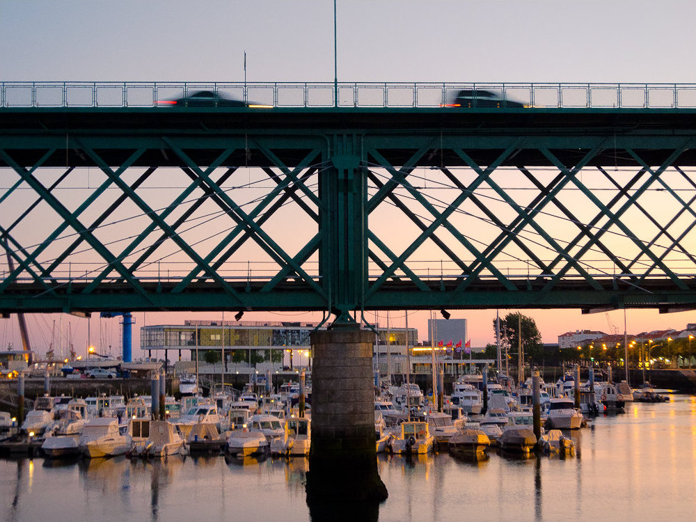 Eiffel bridge of the Minho railway over river Lima close to the city of Viana do Castelo; Portugal